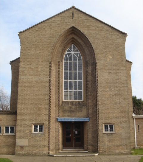 Close view of the west entrance to Bishop Hannington Memorial Church, West Blatchington, City of Brighton and Hove, England.